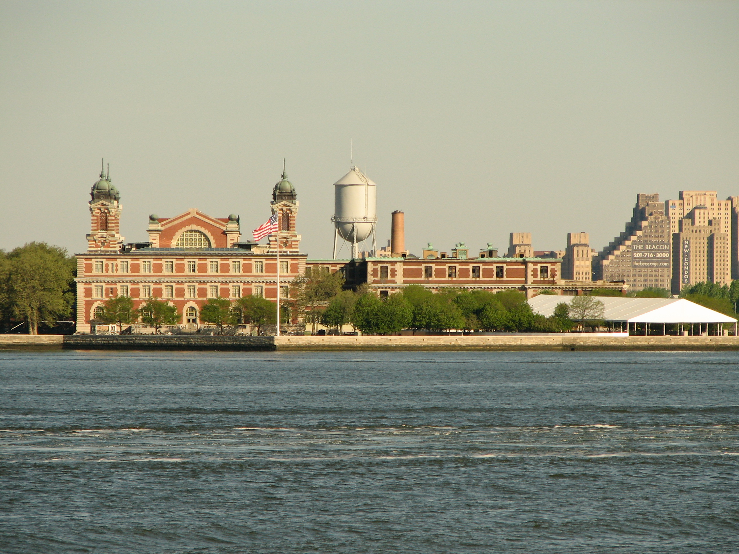 New York City - Ellis Island